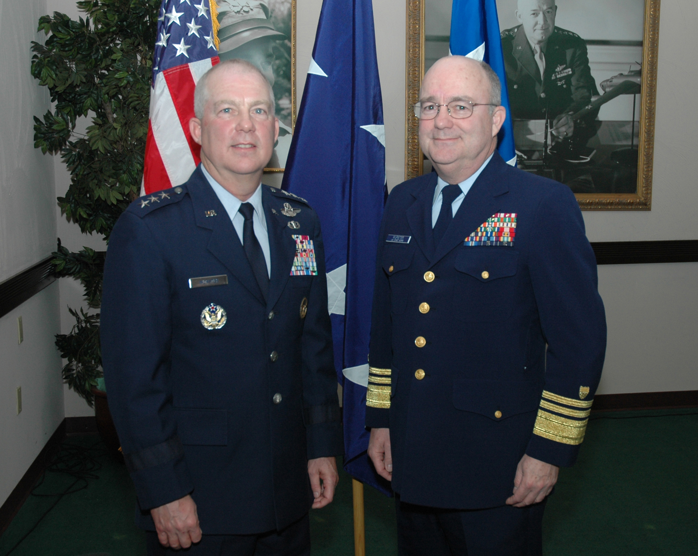 Lt. Gen. Donny Wurster (left), Air Force Special Operations Command commander, and Vice Adm. Charles Wurster (right), U.S. Coast Guard Pacific Area commander, are the most recent members of the Wurster family to embark in the family business. The family has a record of military service dating back to the Revolutionary War. As three-star flag officers, they also hold the highest rank of anyone in their family.